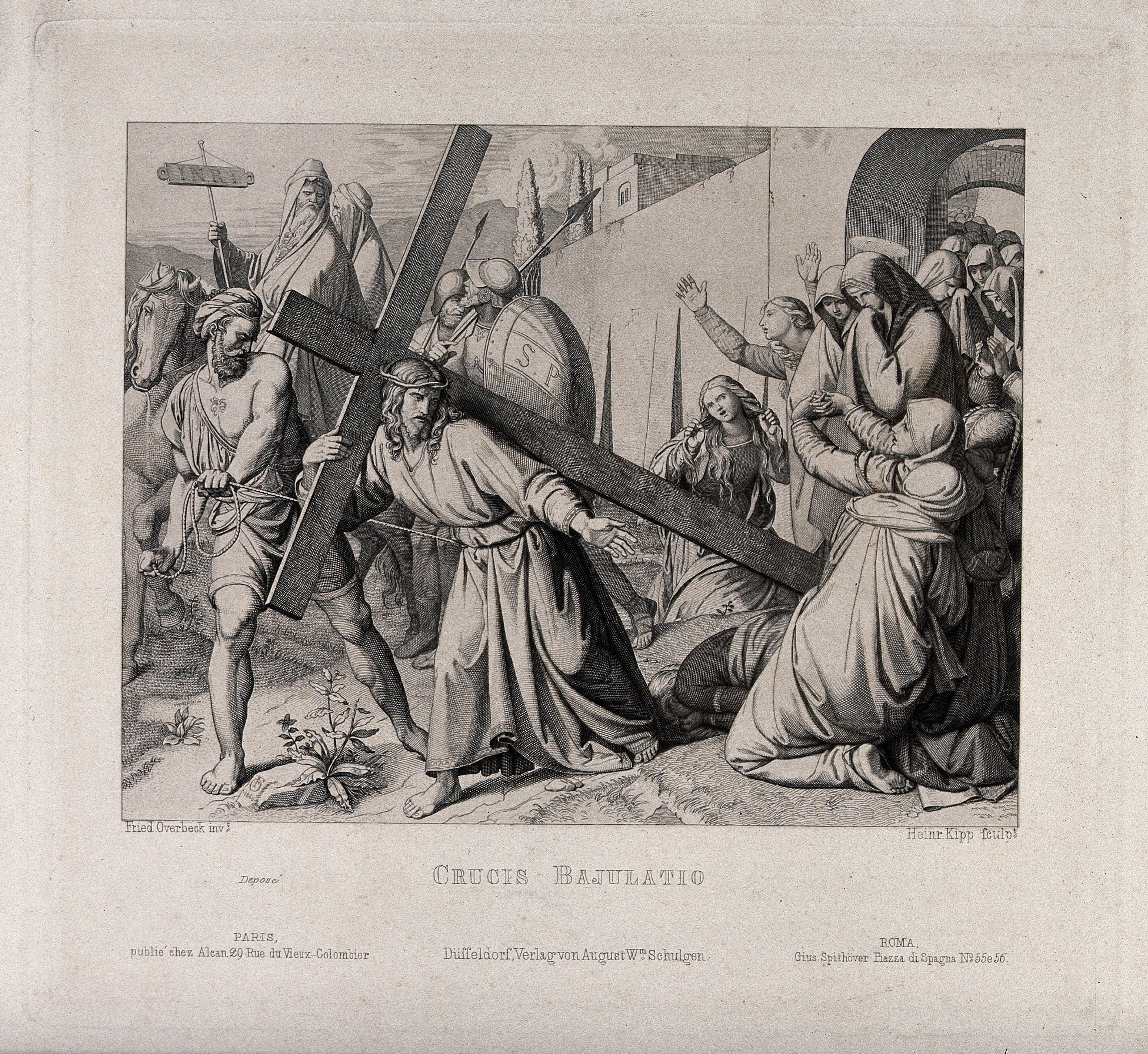 Christ carries his cross to Golgotha. Etching by Heinrich Kipp after Johann Friedrich Overbeck, 1846. Iconographic Collections Keywords: Jesus Christ; Johann Friedrich Overbeck; Heinrich Kipp; Mary Magdalene; Mary